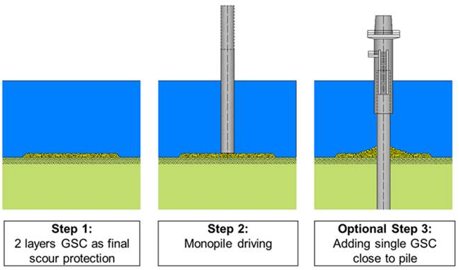 Schematic illustration: scour protection with nonwoven geotextile sand container and installation of monopile foundation of off-shore wind energy turbines.